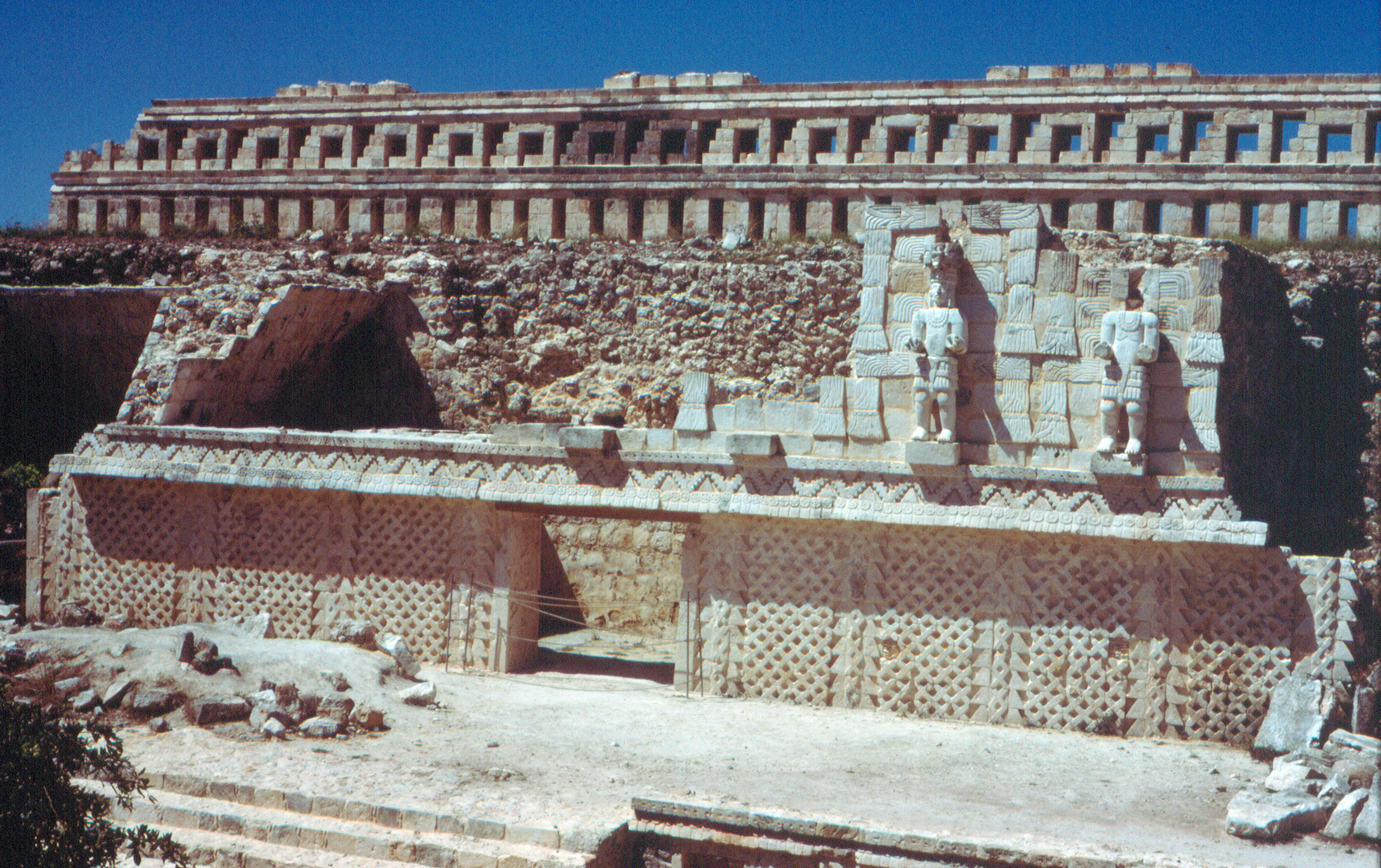 Kabah, Yucatan, Mexico: Codz Pop east side.